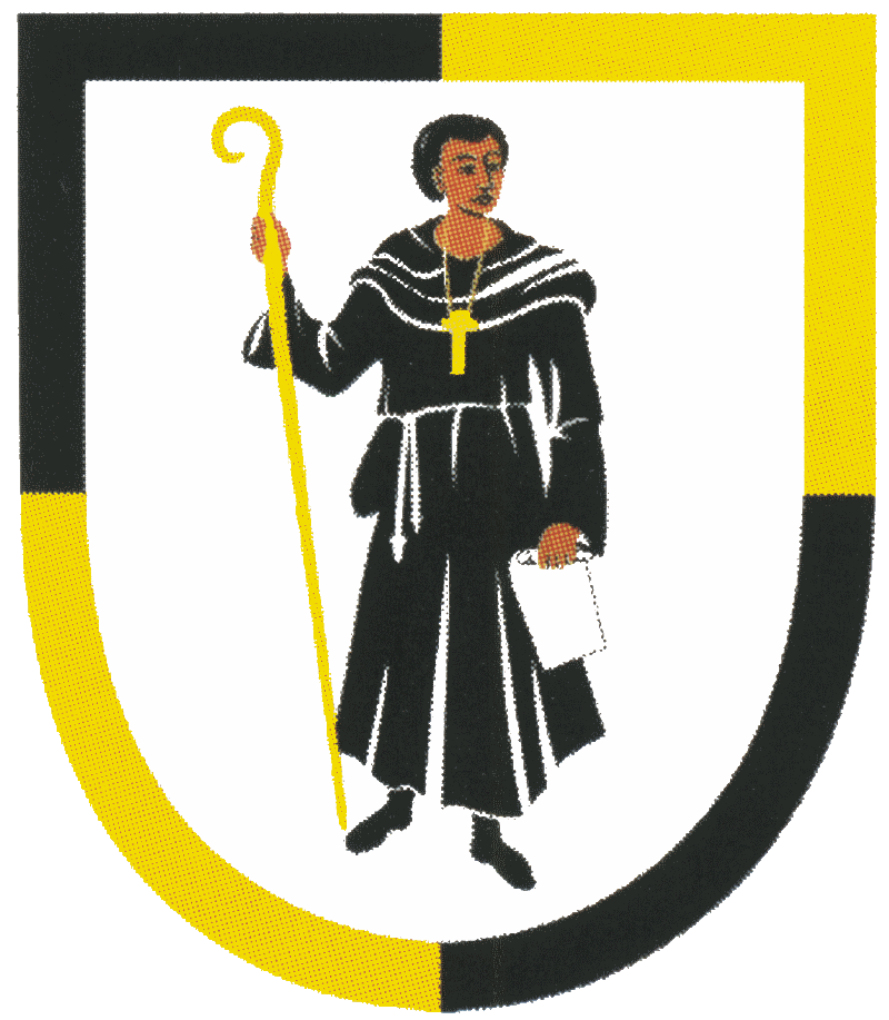 This file depicts the coat of arms of a German Körperschaft des öffentlichen Rechts (corporation governed by public law). According to § 5 Abs. 1 of the German Copyright law, official works like coats of arms are in the public domain. Note: The usage of coats of arms is governed by legal restrictions, independent of the copyright status of the depiction shown here. Coat of arms of Burkhardtsdorf